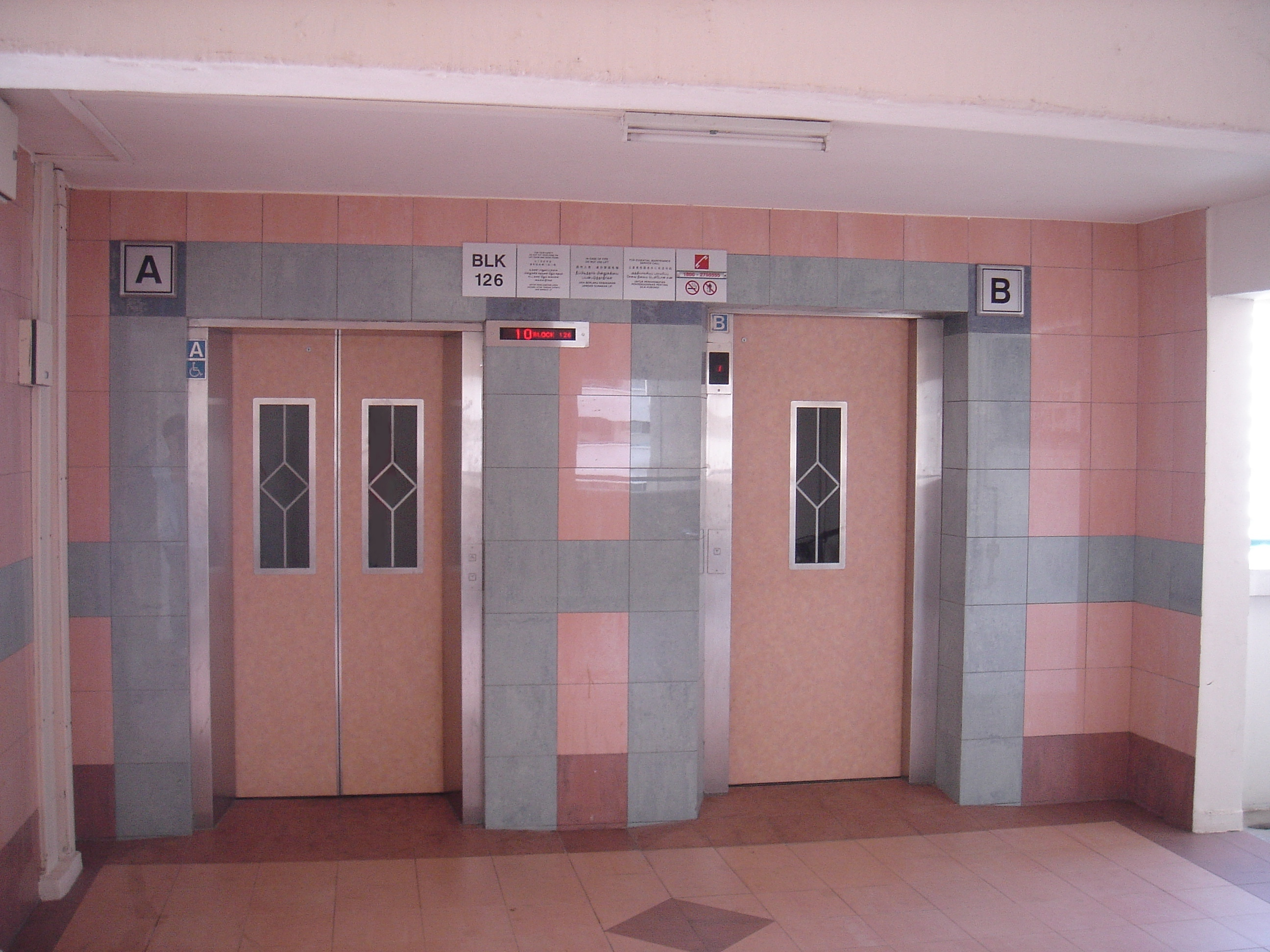 Lifts installed under the Lift Upgrading Programme (LUP) in a Housing and Development Board flat in Singapore. Lift A (installed under the LUP) stops at all floors, while Lift B (installed under the older Interim Upgrading Programme or Main Upgrading Programme) was given an aesthetic update and continues to stop at selective floors.